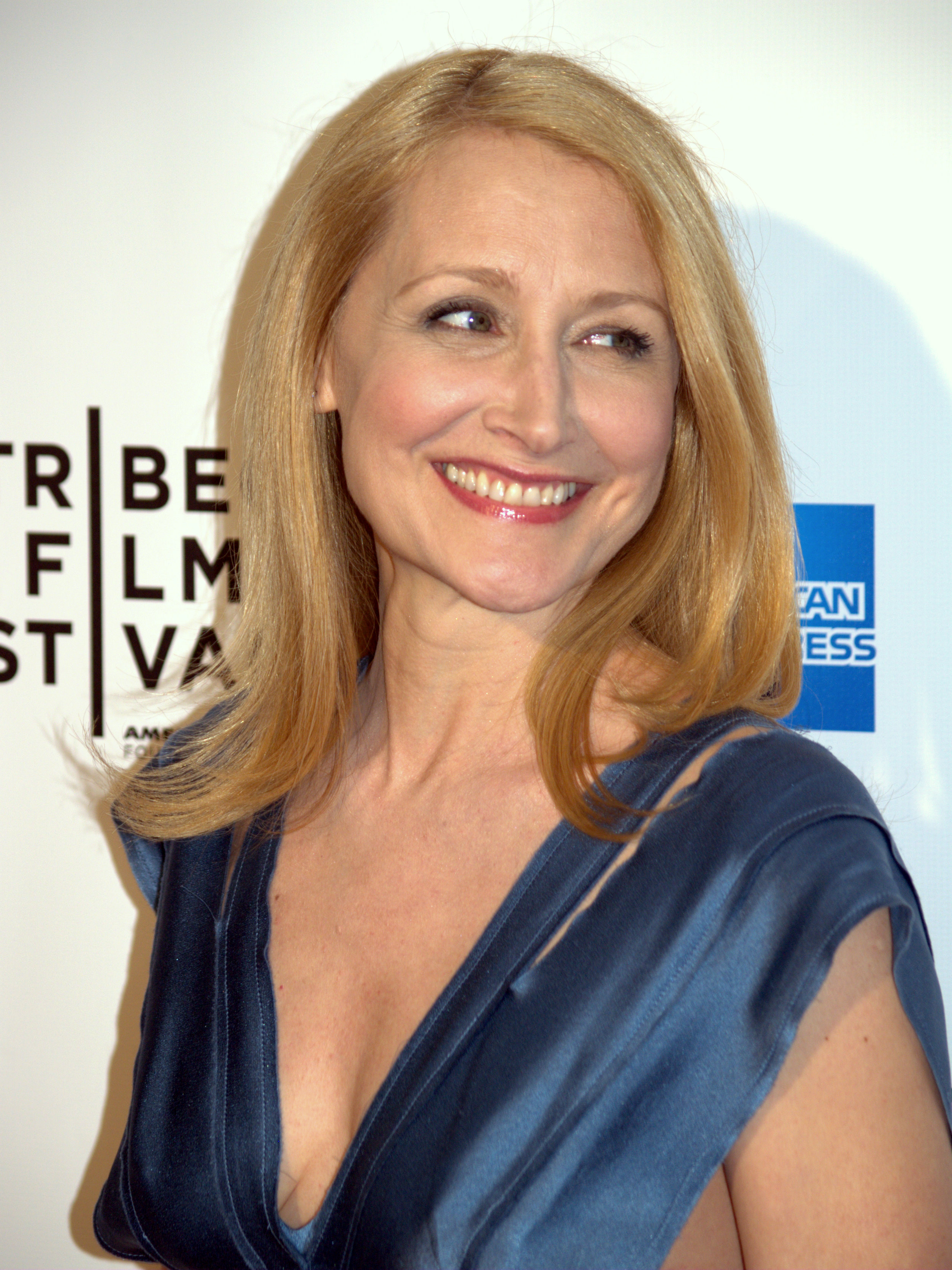 Patricia Clarkson at the 2009 Tribeca Film Festival premiere of Woody Allen's Whatever Works.